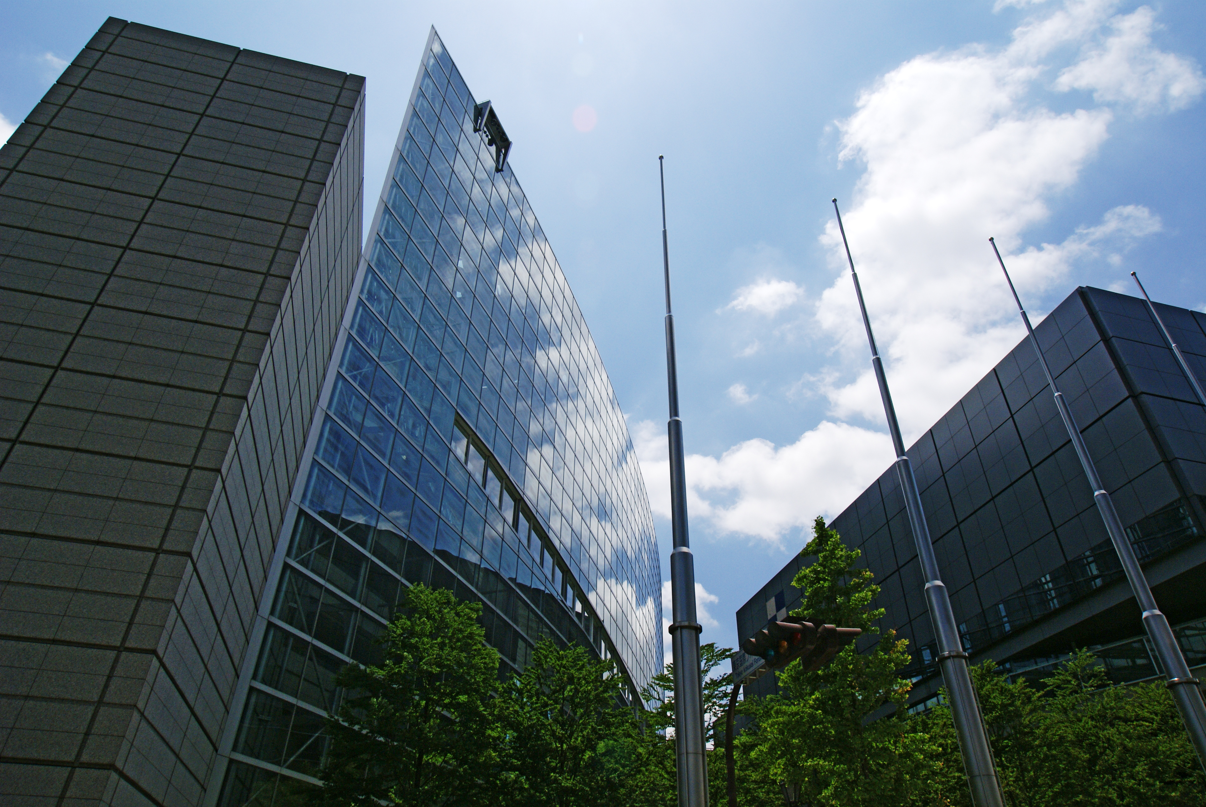 Tokyo International Forum in Chiyoda-ku, Tokyo, Japan